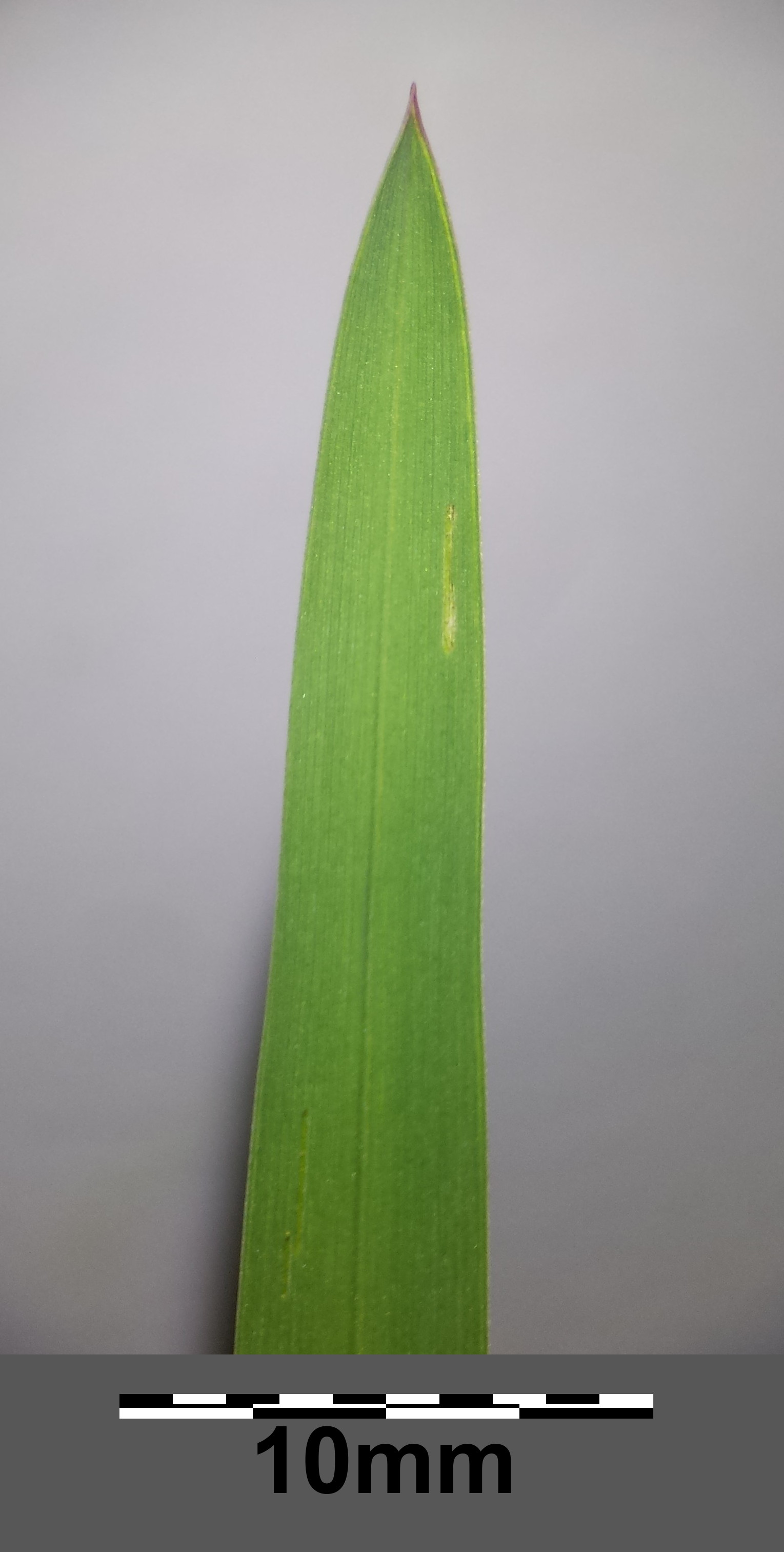 Apex of leaf Taxonym: Glyceria fluitans ss Fischer et al. EfÖLS 2008 ISBN 978-3-85474-187-9 Location: next to pond near Goldenes Bründl, Rohrwald, district Korneuburg, Lower Austria - ca. 225 m a.s.l. Habitat: pond